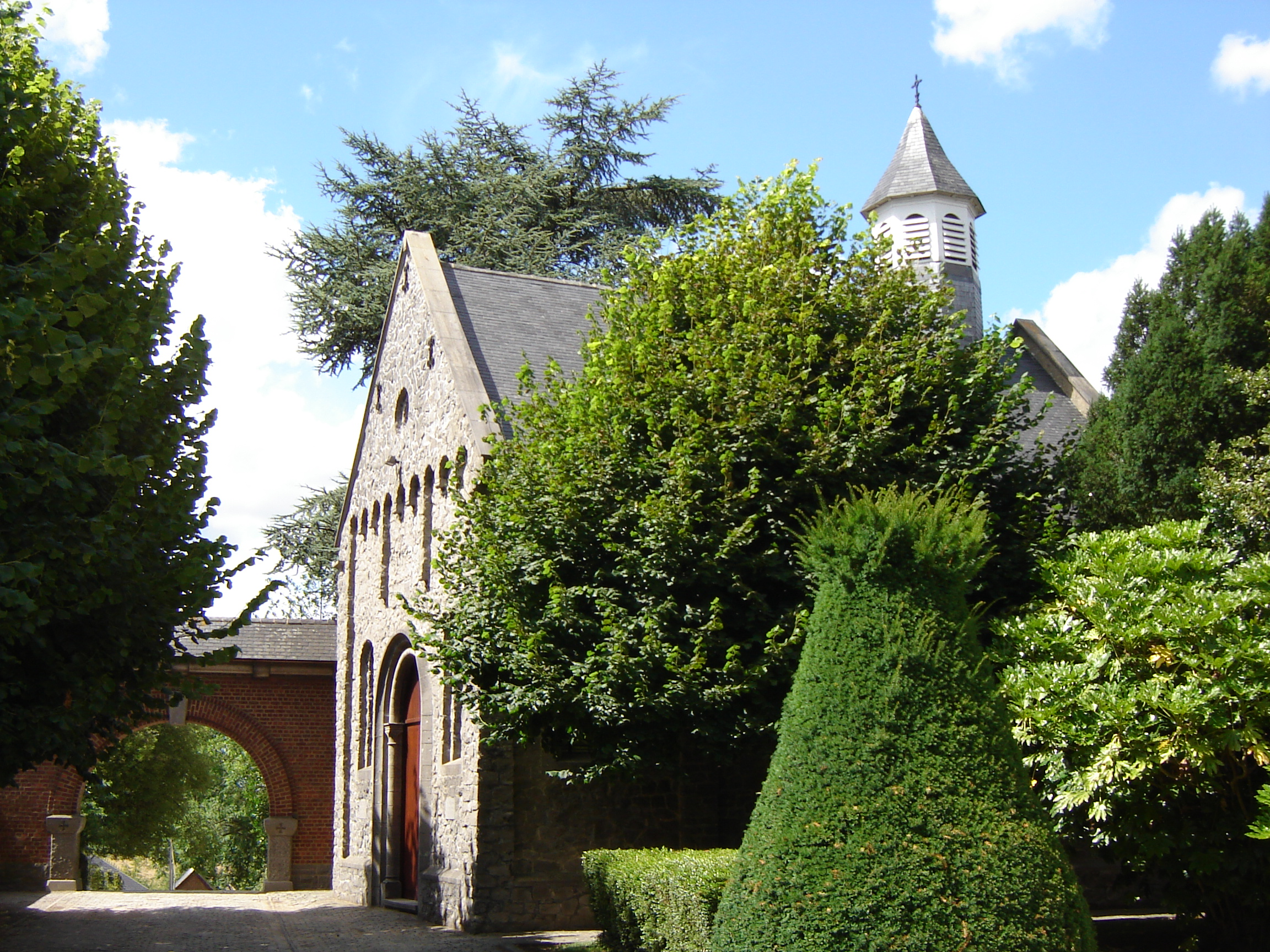 Chapel of Saint Amalberga in Mater. Mater, Oudenaarde, East Flanders, Belgium